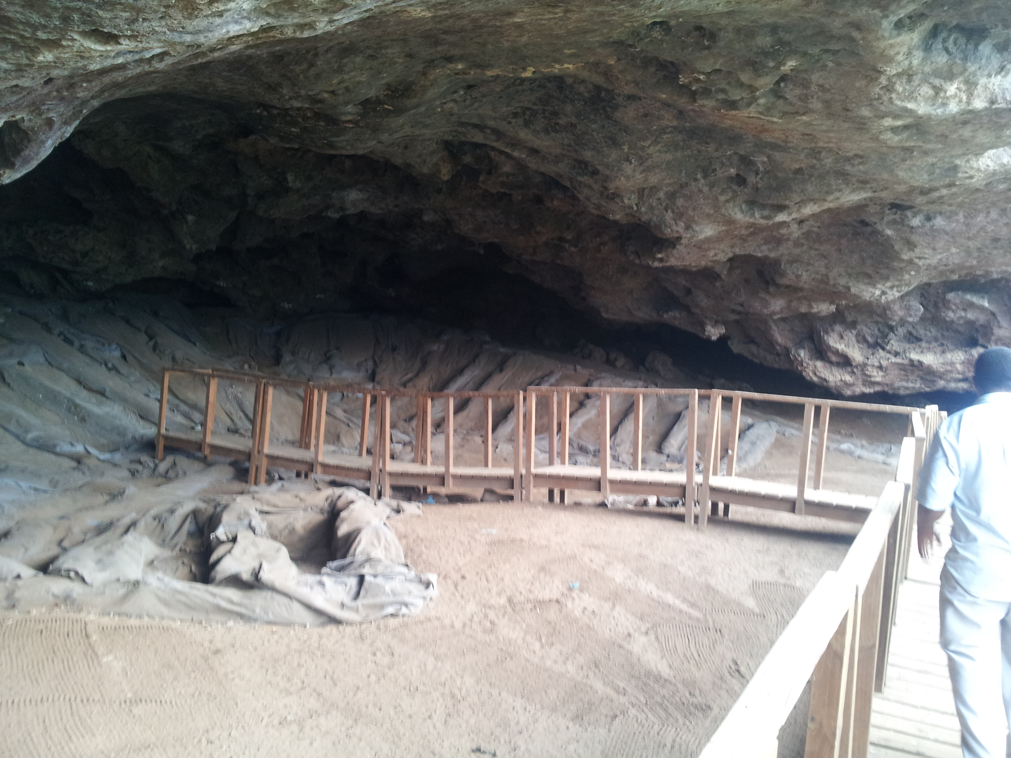 This media shows a South African Protected Site with SAHRA file reference 24684.